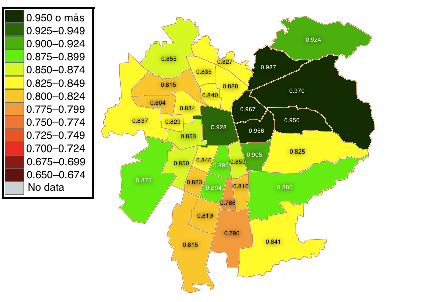 HDI of Santiago de Chile's communes in 2017